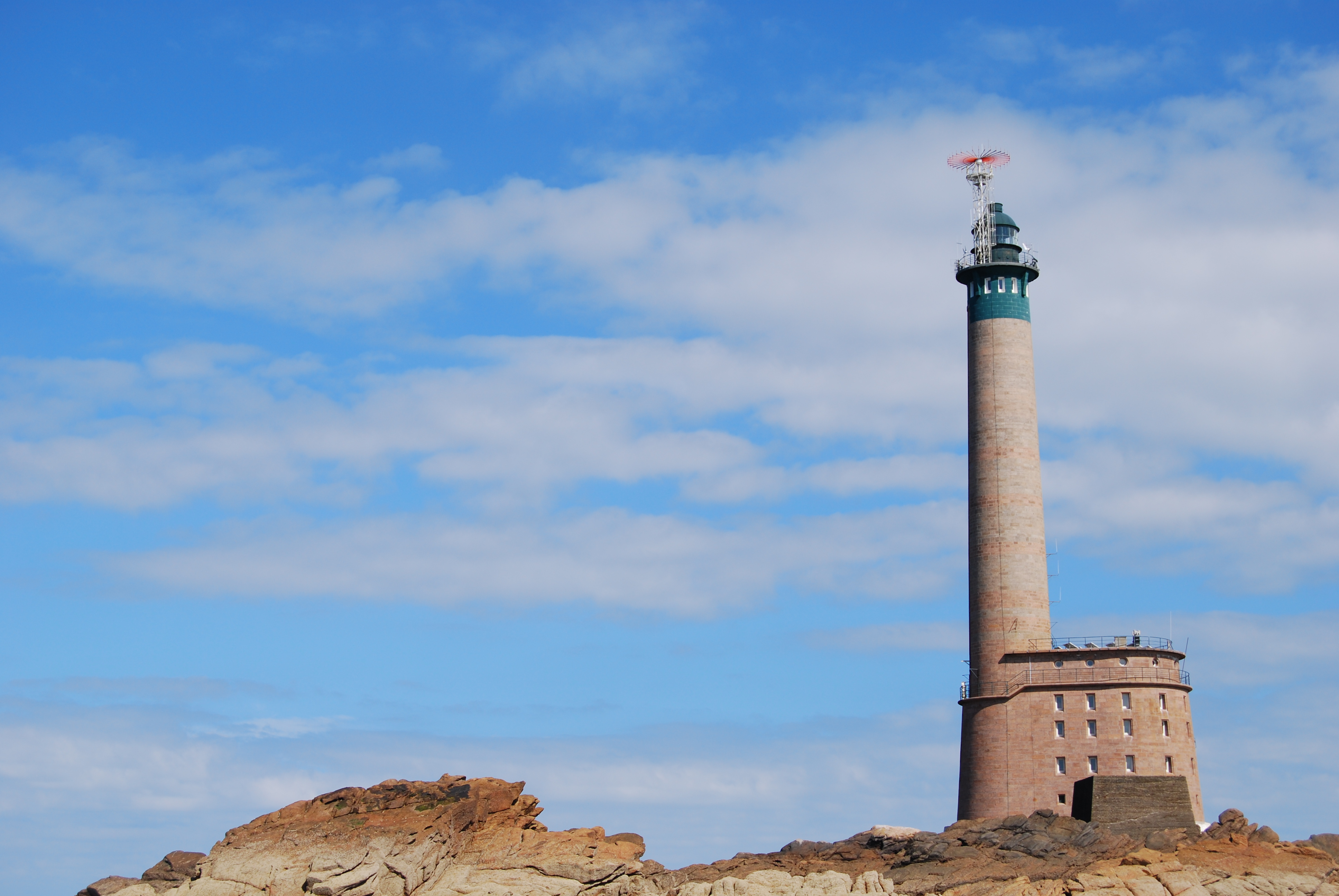 Roches-Douvres Lighthouse, English Channel, Côtes-d'Armor, Brittany, France. A plateau of rocks between France and Guernsey.